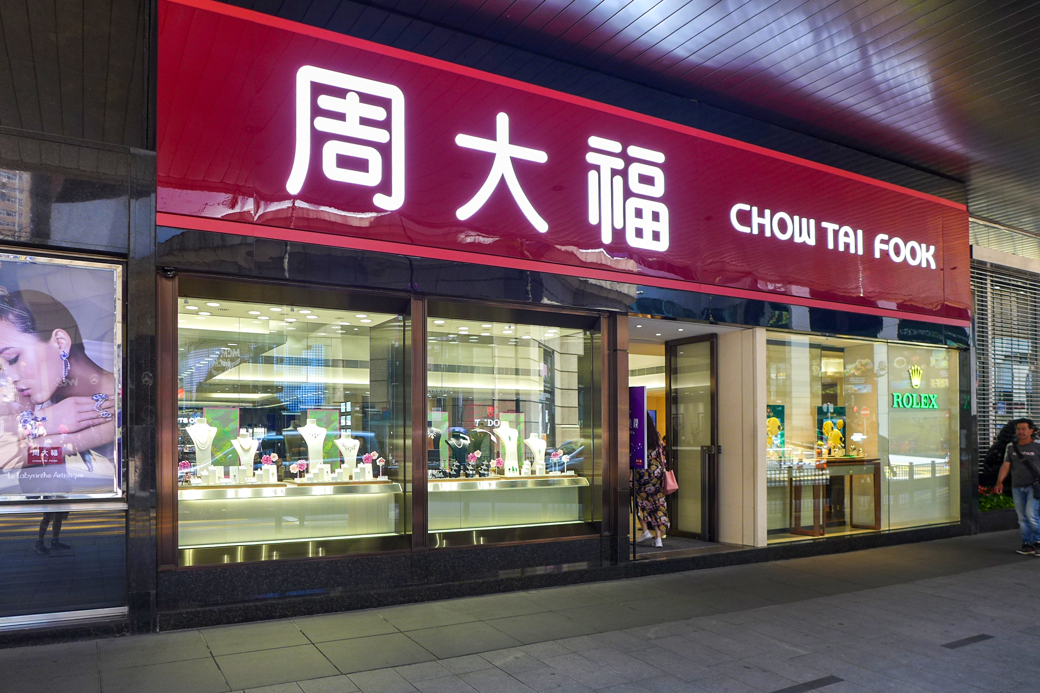 Chow Tai Fook in Aon China Building